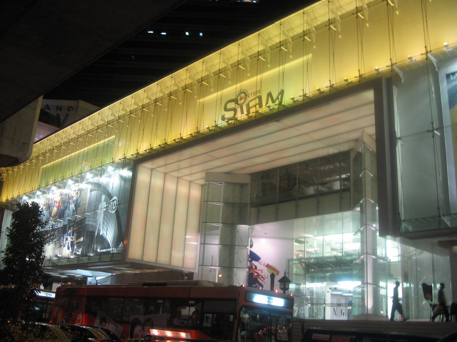 Siam Center.